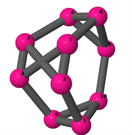 One of 19 simple cubic graphs with 10 vertices.